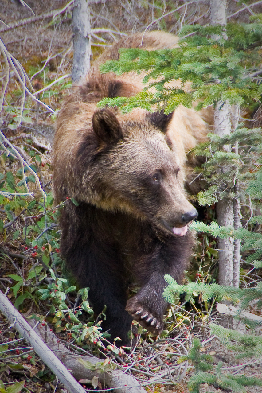 ... That guy over there looks tasty too. ;) Grizzly bear. Kananakis Country, Alberta, Canada.